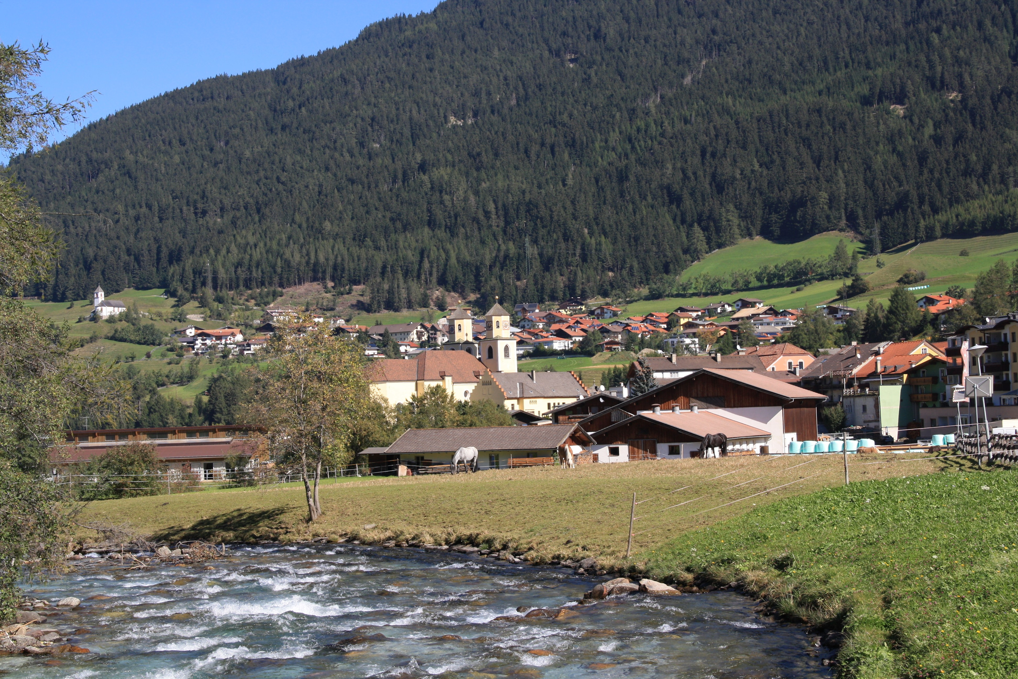 Austria, Tyrol (state). Steinach am Brenner and the Gschnitz stream.